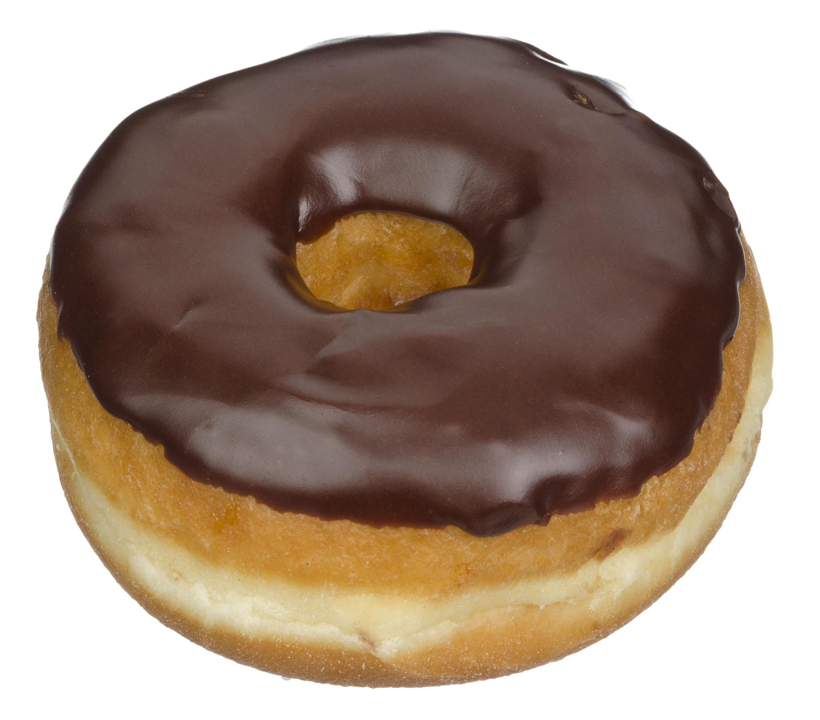 A chocolate-frosted, yeast-raised donut from an American Dunkin' Donuts.